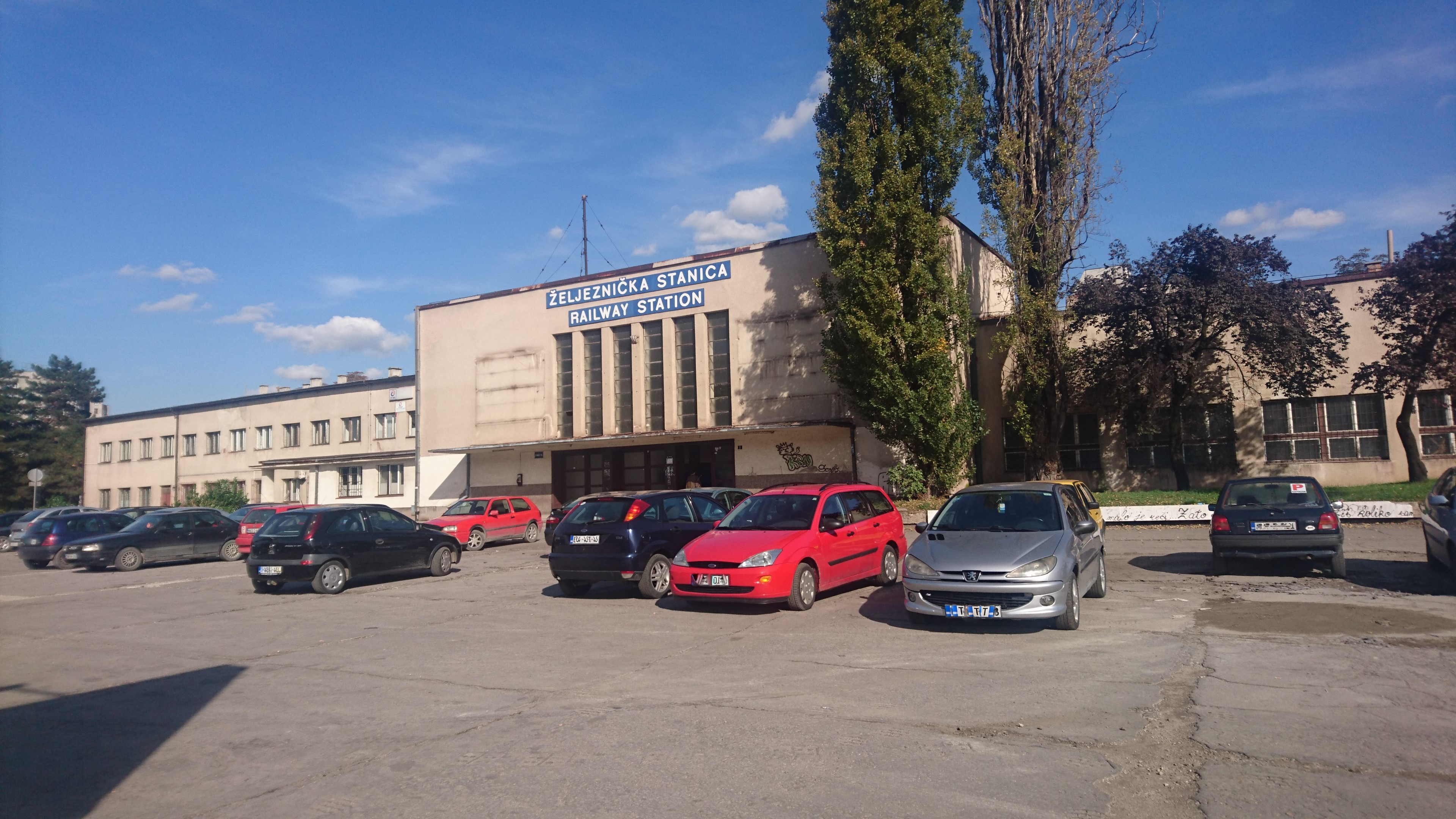 Zenica train station, Bosnia and Herzegovina